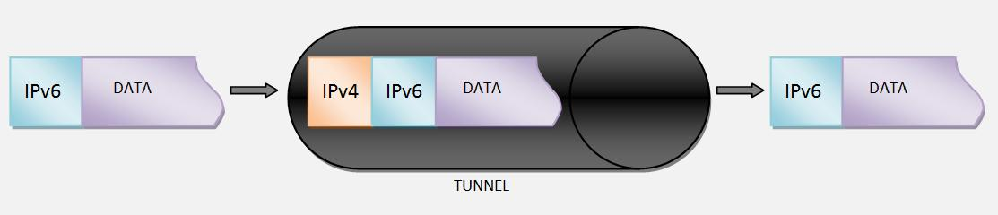 The tunnelling technique allows to transport IPv6 packets using the IPv4 protocol.